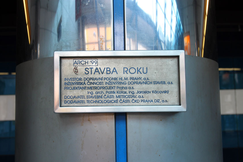 Prague metro station "Rajská zahrada"